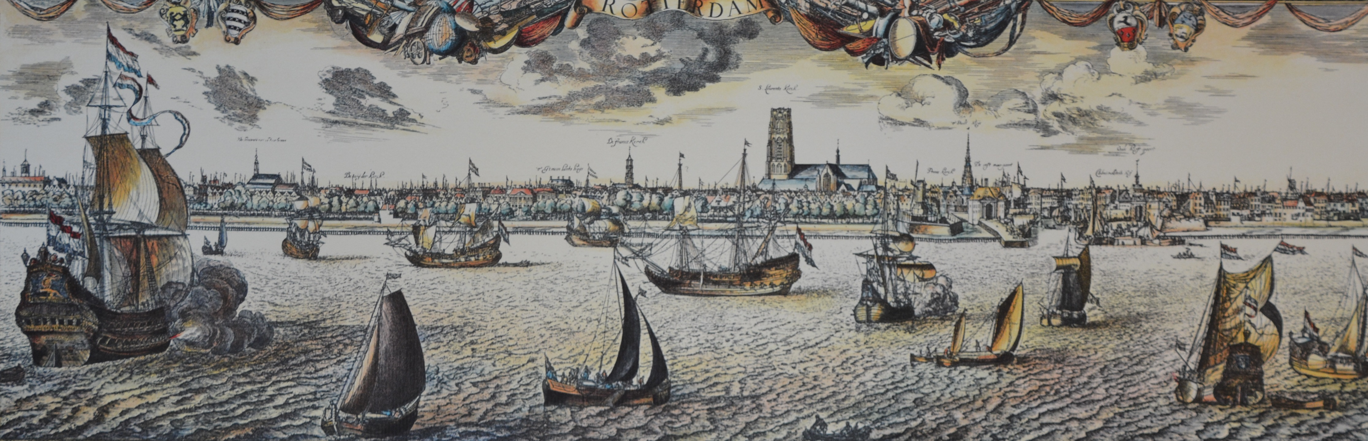 Etching of Rotterdam, Quacq 1665